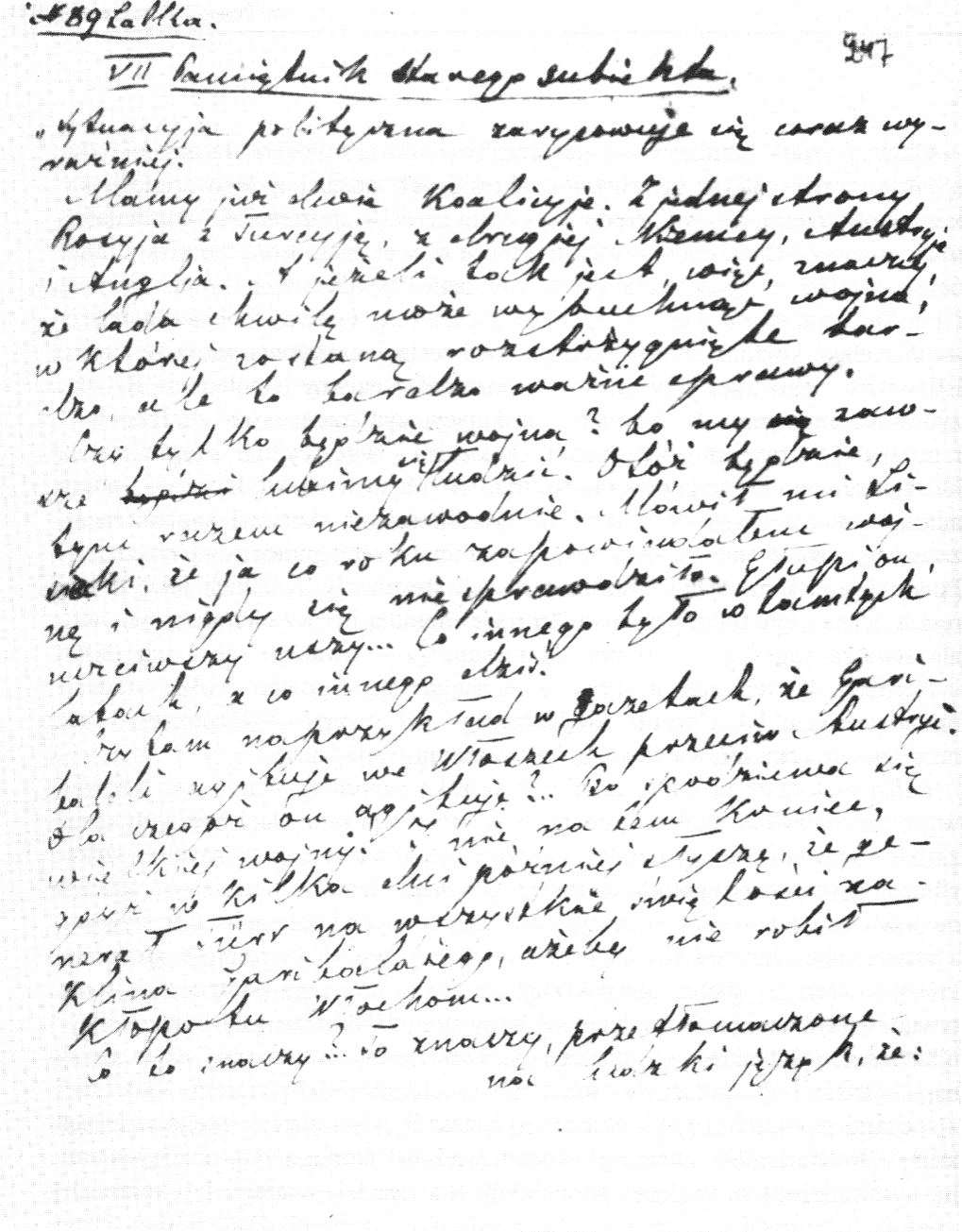 Manuscript of the novel "Lalka" by Bolesław Prus, about 1889.